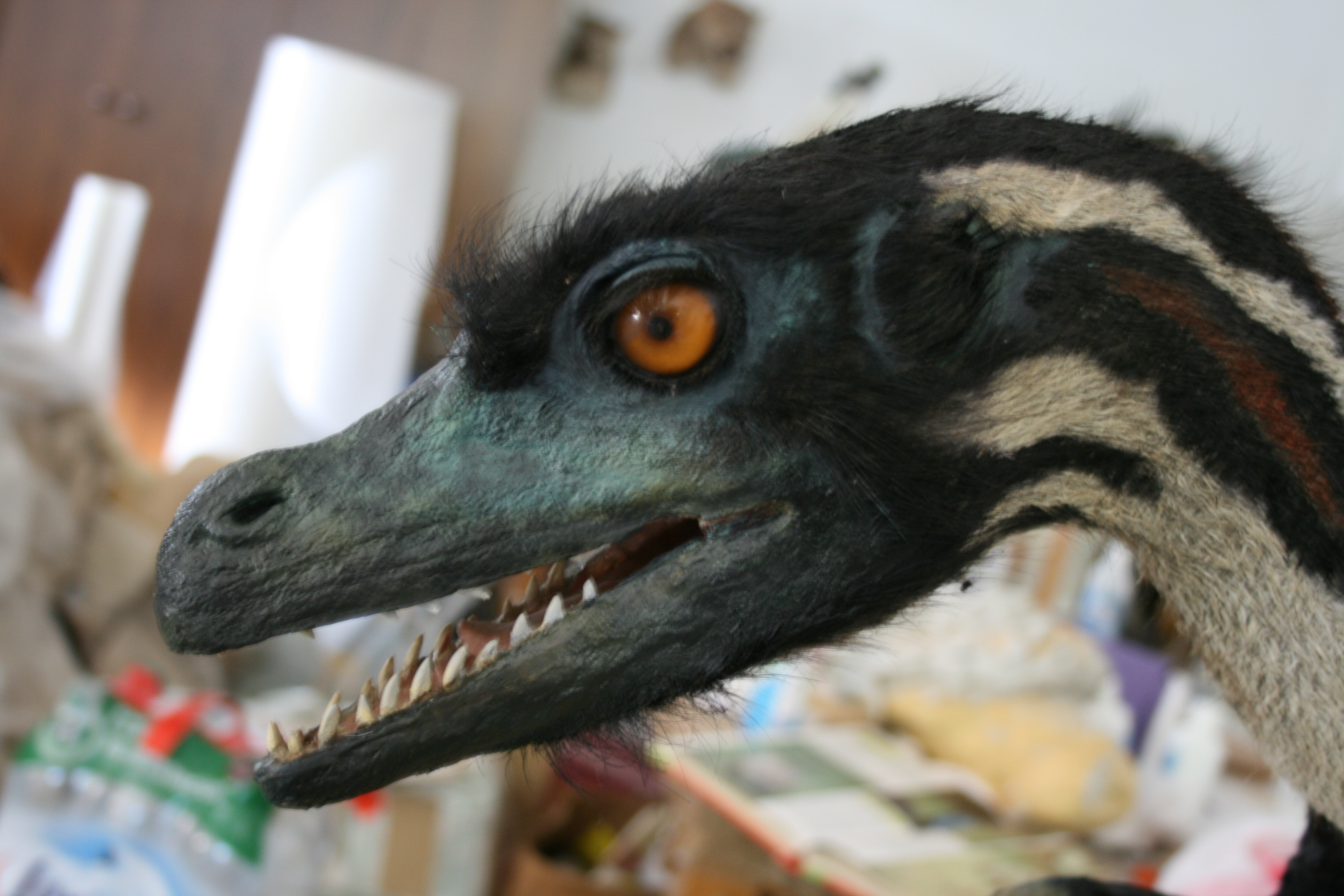 Velociraptor mongoliensis with feathers